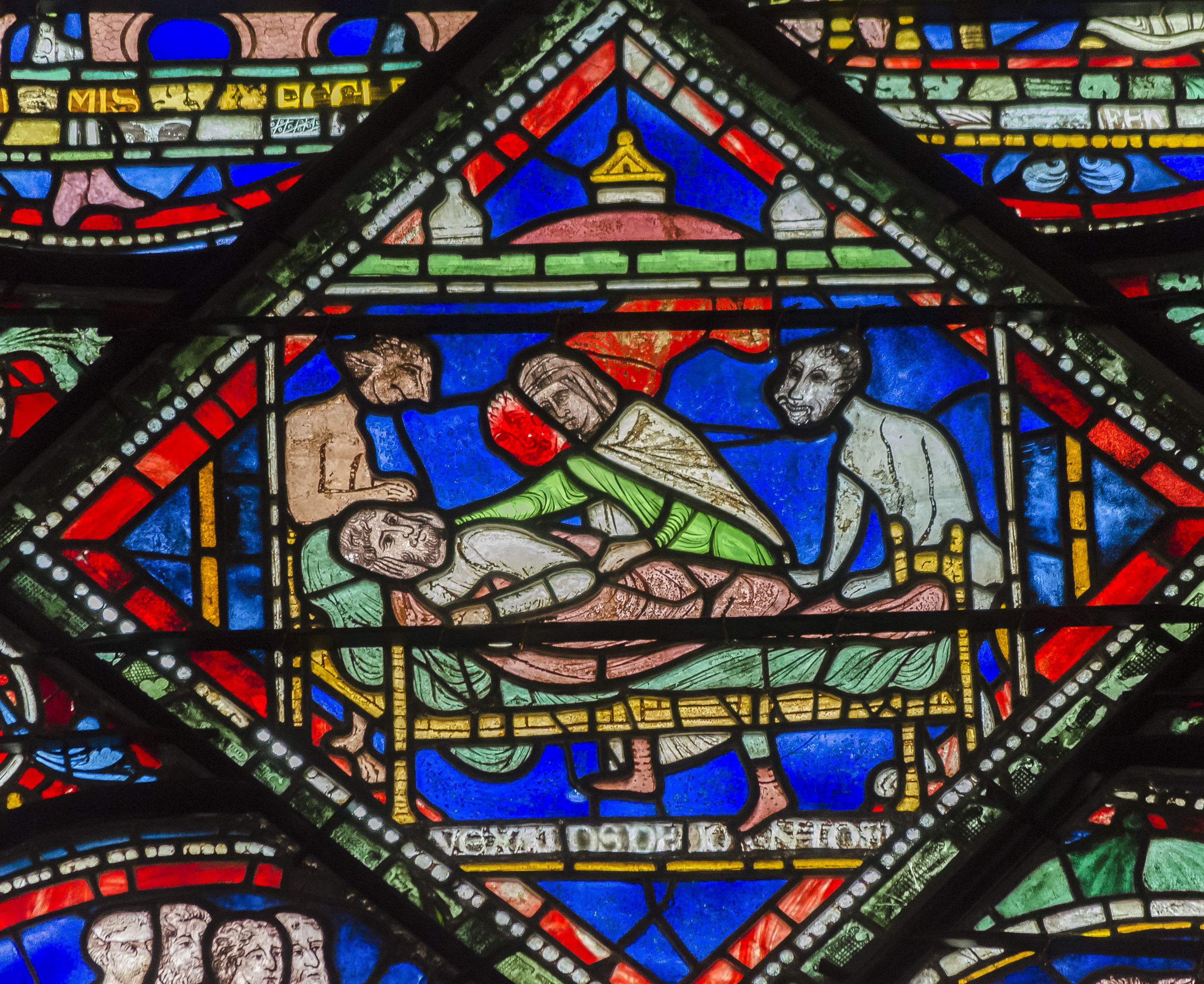 Stephen of Hoyland and three demons. "Vexatus Demonia" The story is documented by Benedict of Peterborough - Stephen was subject to feeling suffocated in his sleep which he attributed to a demon. The Demon appeared on three occasions, lastly as a"bird" flying down at him. He asked his servant to wake him when he cried out in his sleep. Most of the heads are modern, and there is an interesting theory that a second servant was present behind the right hand demon. The panel has recently been researched by Rachel Koopmans, published in Vidimus.